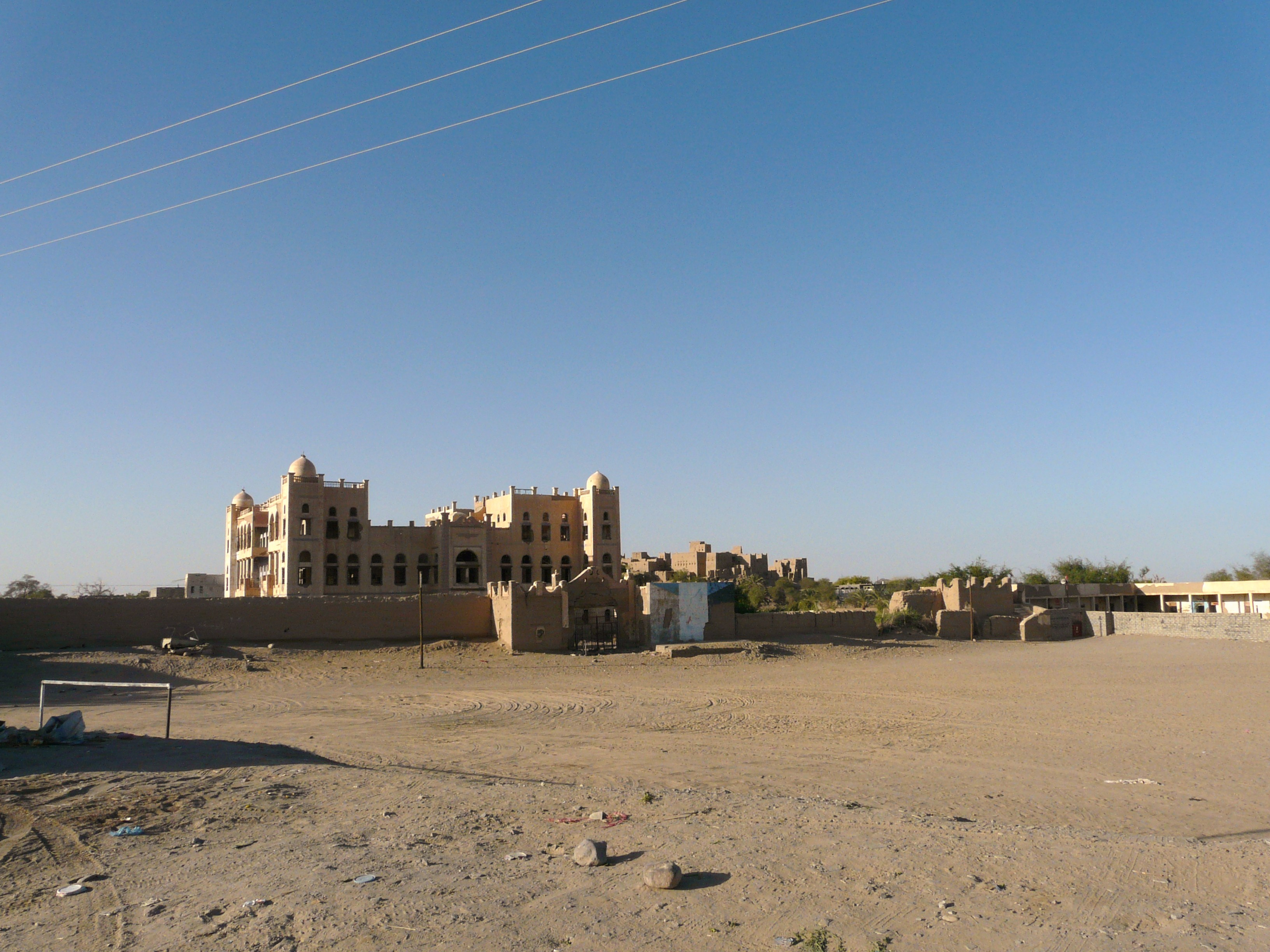 Kasr (Palace) Alsultan in Bihan, South Yemen.